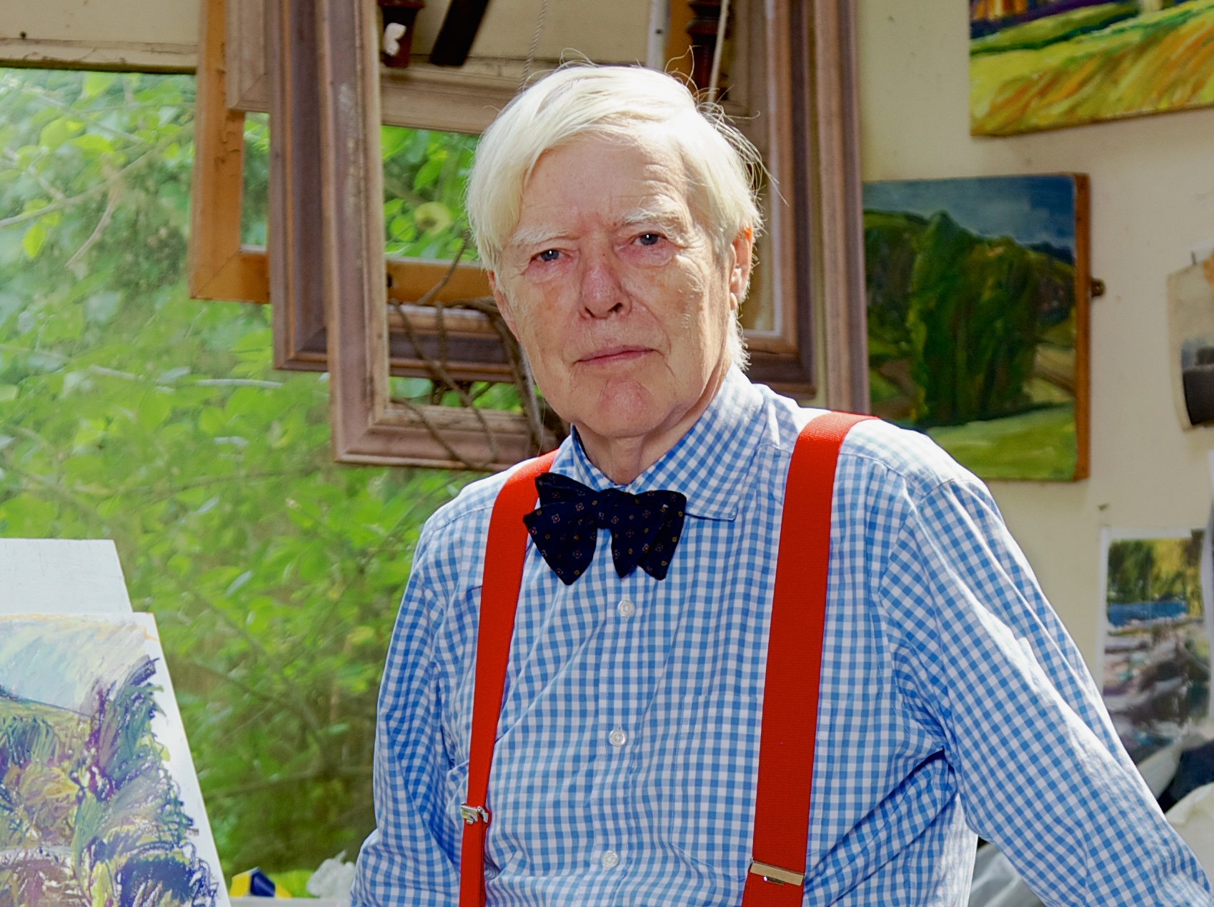 English landscape painter Nick Schlee at work in his studio, July 2012